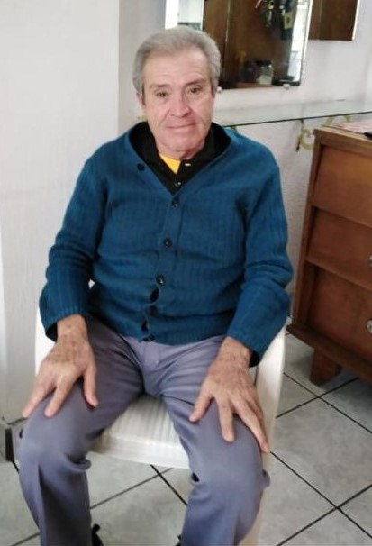 Sergio Alfredo Custodio Contreras in his home in Guatemala City in 2020, before his death.